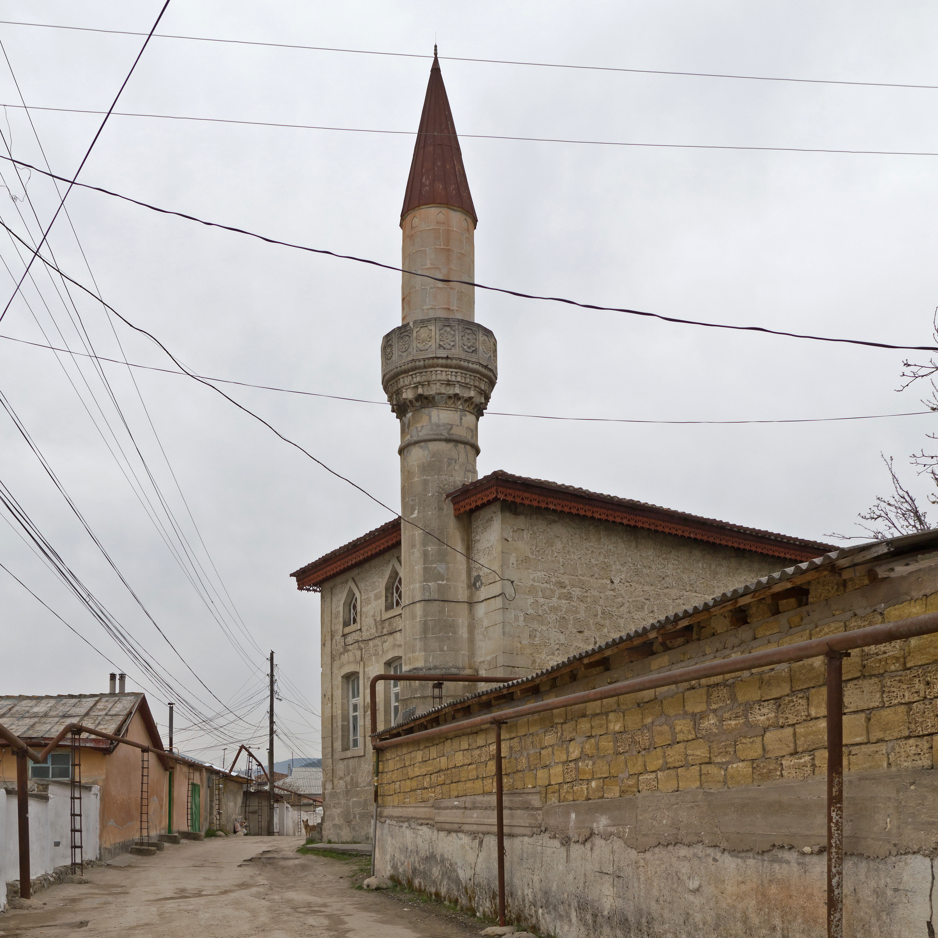 The Molla Mustafa Jami Mosque in Bakhchisaray, Crimean Peninsula.